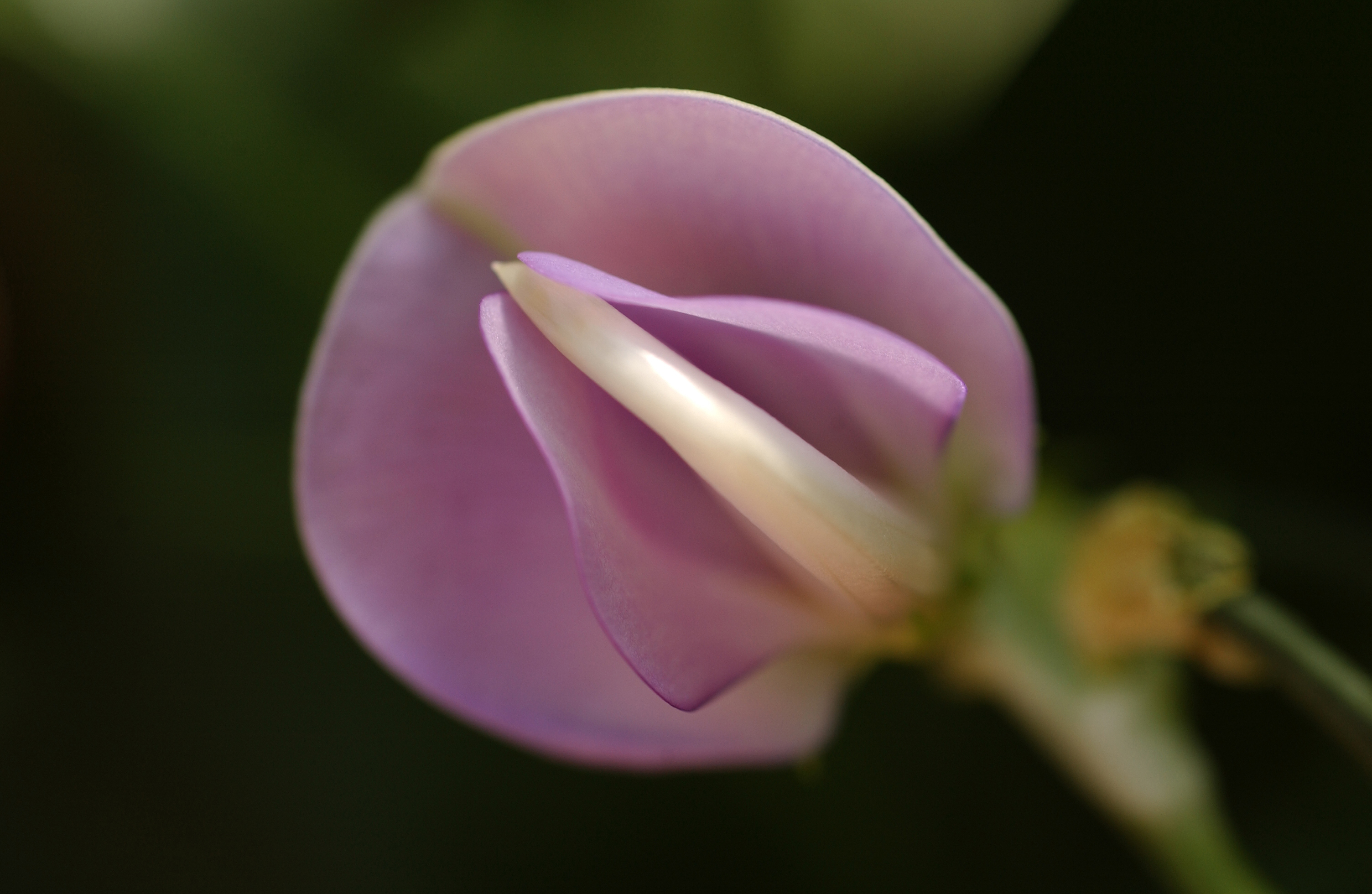 Cowpeas are a staple food and an important source of protein for over200 million people in sub-Saharan Africa. They are regarded as drought-tolerant and can cope with poor soils, making them highly adapted to the region. CSIRO Plant Industry are developing varieties of this legume that are resistant to the legume pod borer, an insect pest, the larvae of which damage the flowers, young pods and seeds, drastically reducing yield.